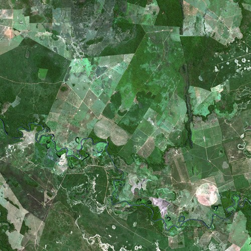 Chapada dos Veadeiros National Park by SPOT Satellite